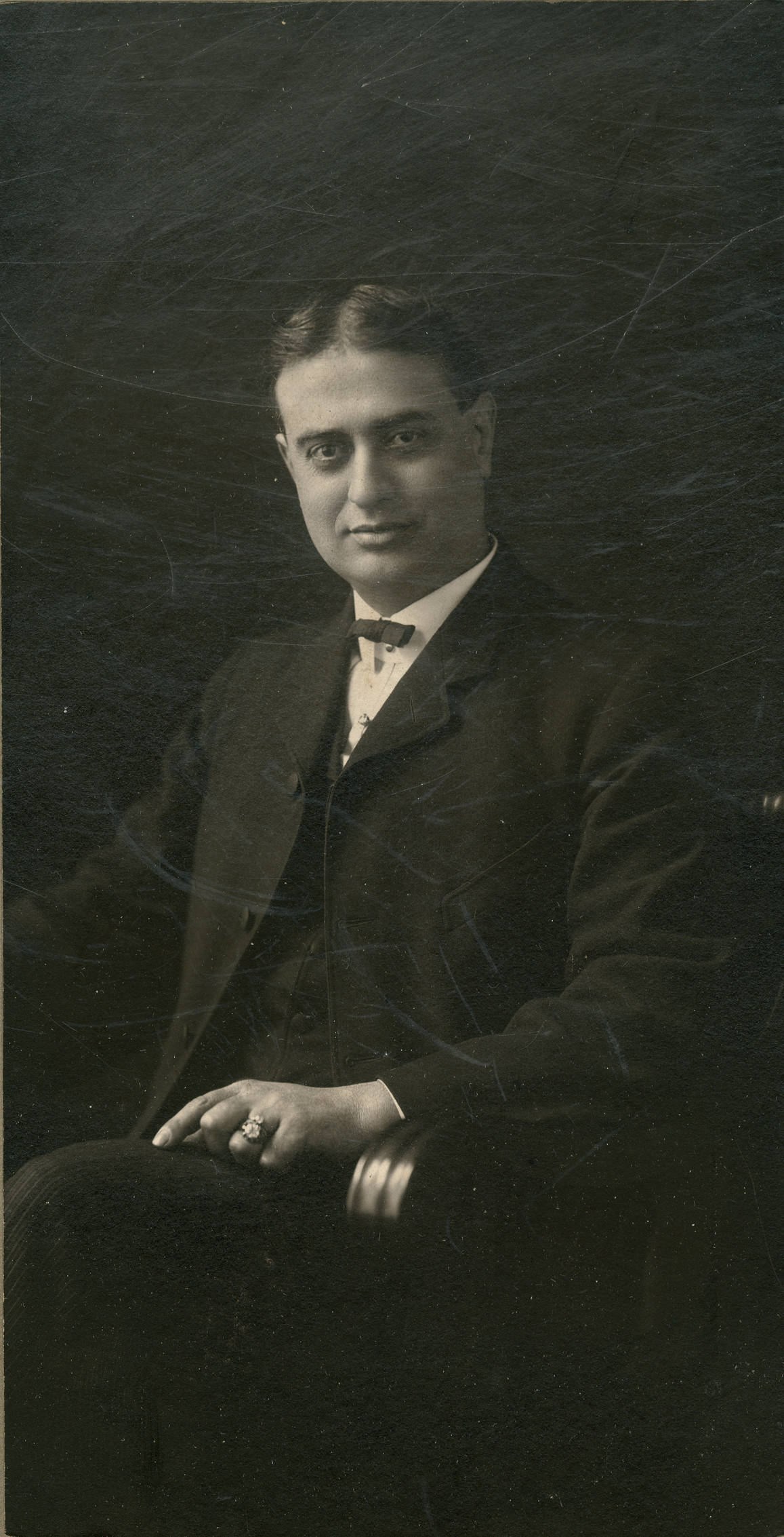 Alex Pantages, theatrical manager Subjects: miscellaneous